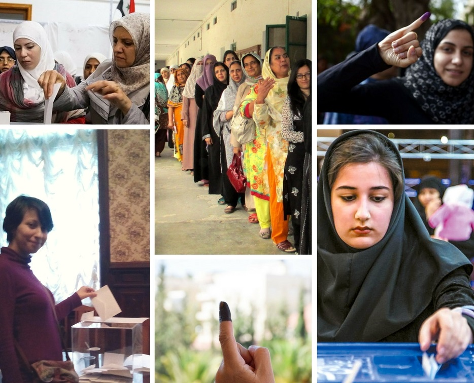 Collage of voting women in the 2010s - Syrian, Algerian, Pakistani, Jordanian, Egyptian, Iranian